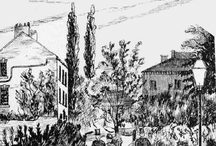 Ockbrook Moravian School in 1880s. Extention to ladies section shown.